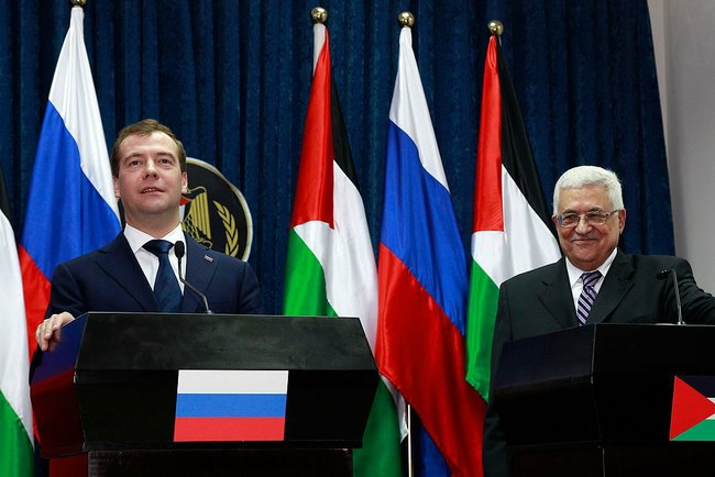 Joint news conference with President of Palestinian Authority Mahmoud Abbas following Russian-Palestinian talks.